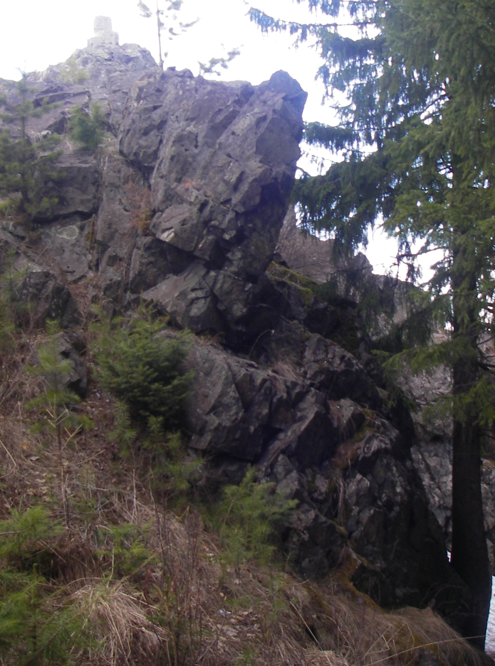 Rock Golyi Kamen near Nizhniy Tagil, Russia